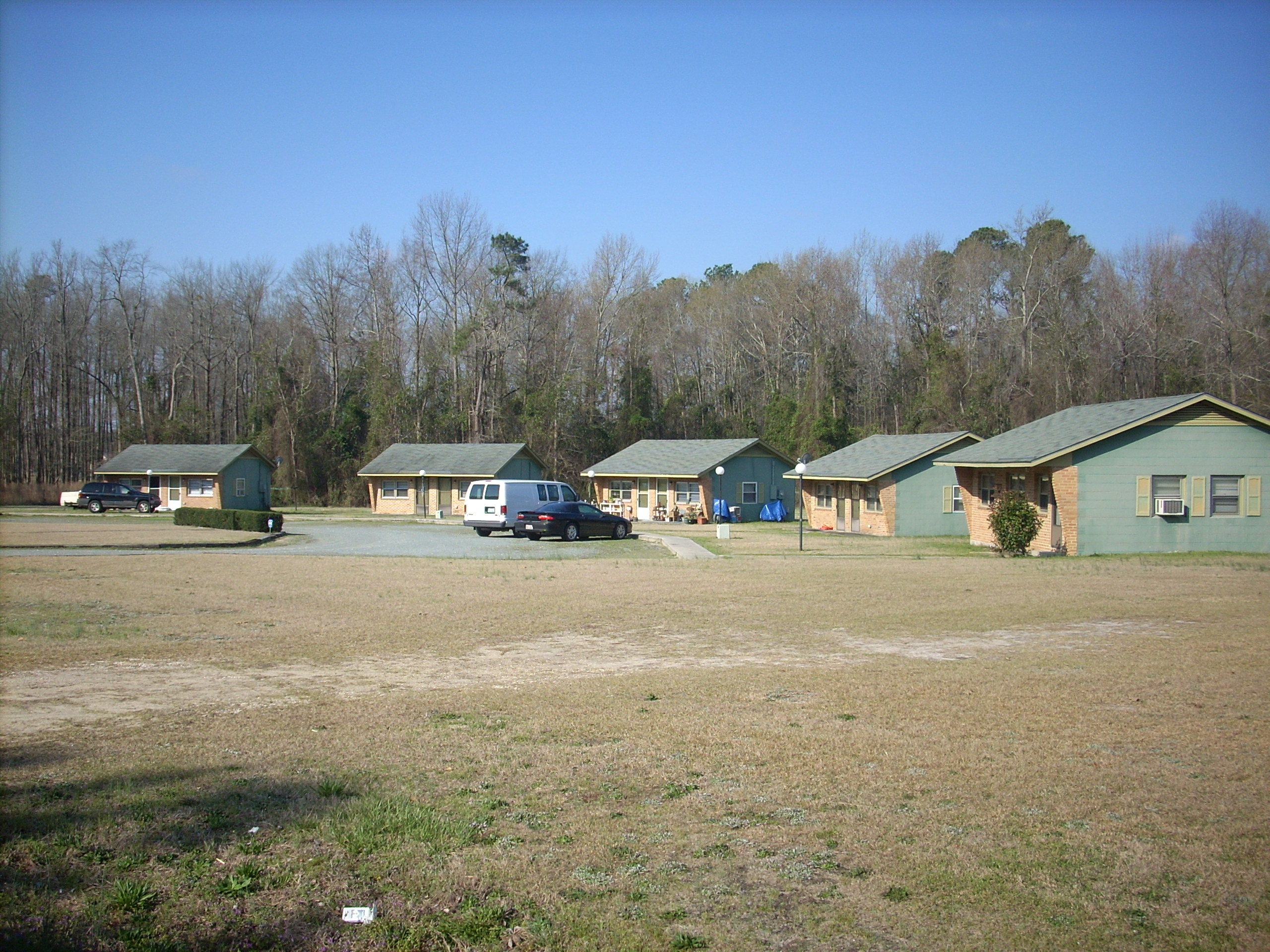 Wade lies on U.S. Route 301. This was formerly the main route from points north to Florida. This must have been on old motel that has since been converted into residential homes.